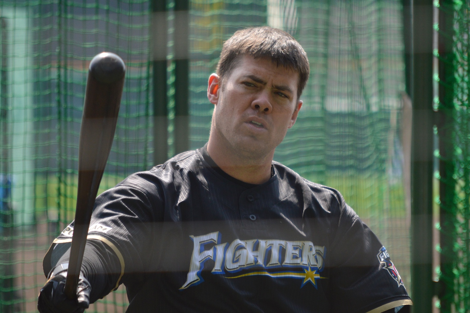 NF-Micah-Hoffpauir20130309